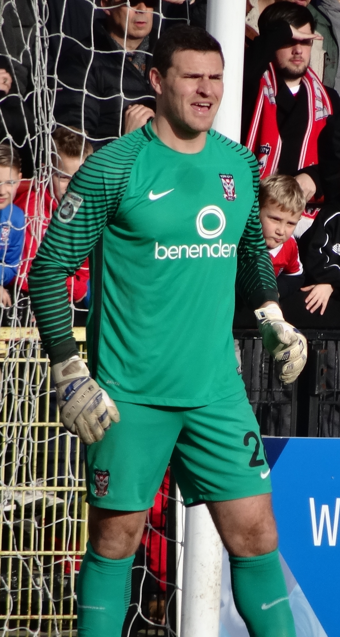 Kyle Letheren playing for York City against Eastleigh at Bootham Crescent, York on 4 March 2017